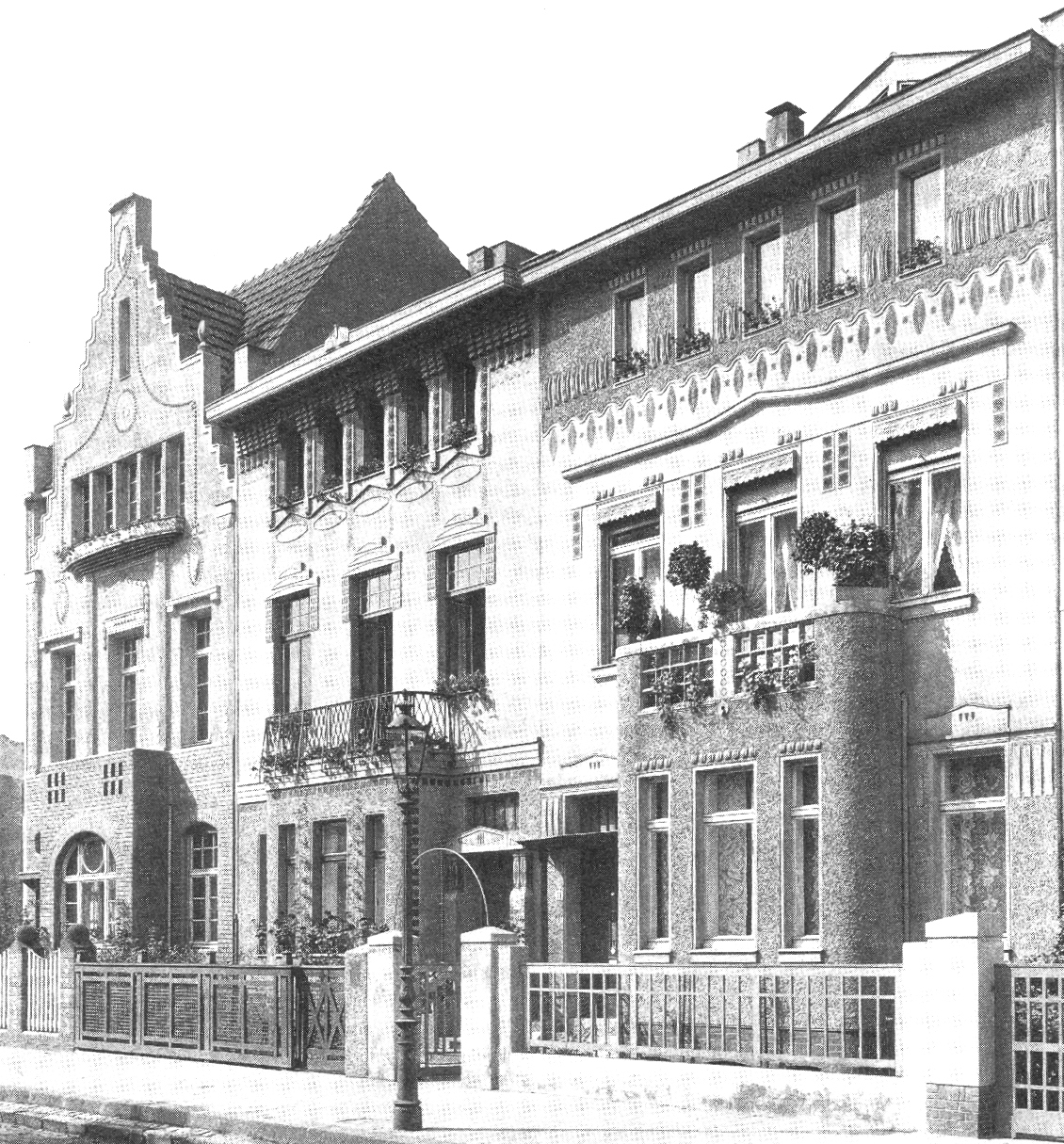 Prinz-Georg-Straße 37, 39, 41 in Düsseldorf , vor 1907 von Architekt Gottfried Wehling aus Düsseldorf, Die Architektur des XX. Jahrhunderts - Zeitschrift für moderne Baukunst. Jahrgang 1907; Nr. 41